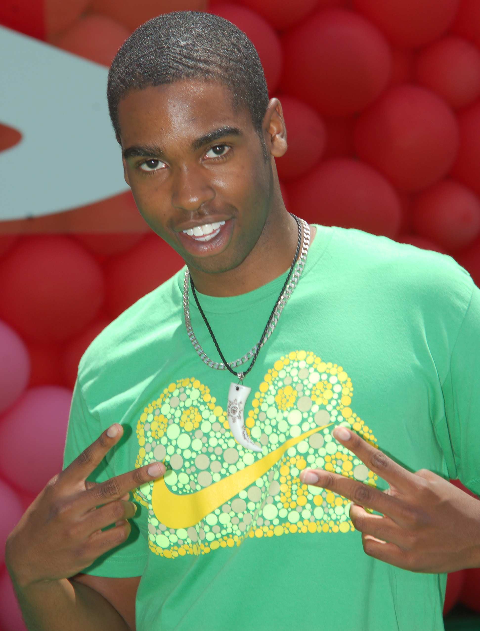 Daniel Curtis Lee at the premiere for Disney Pixar's Up